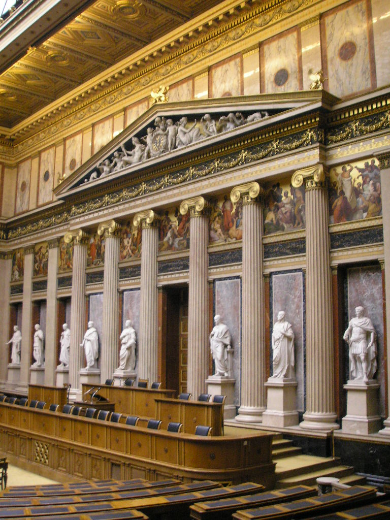 Austria, Vienna, Austrian Parliament Building